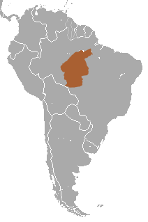 White-nosed Saki (Chiropotes albinasus) range